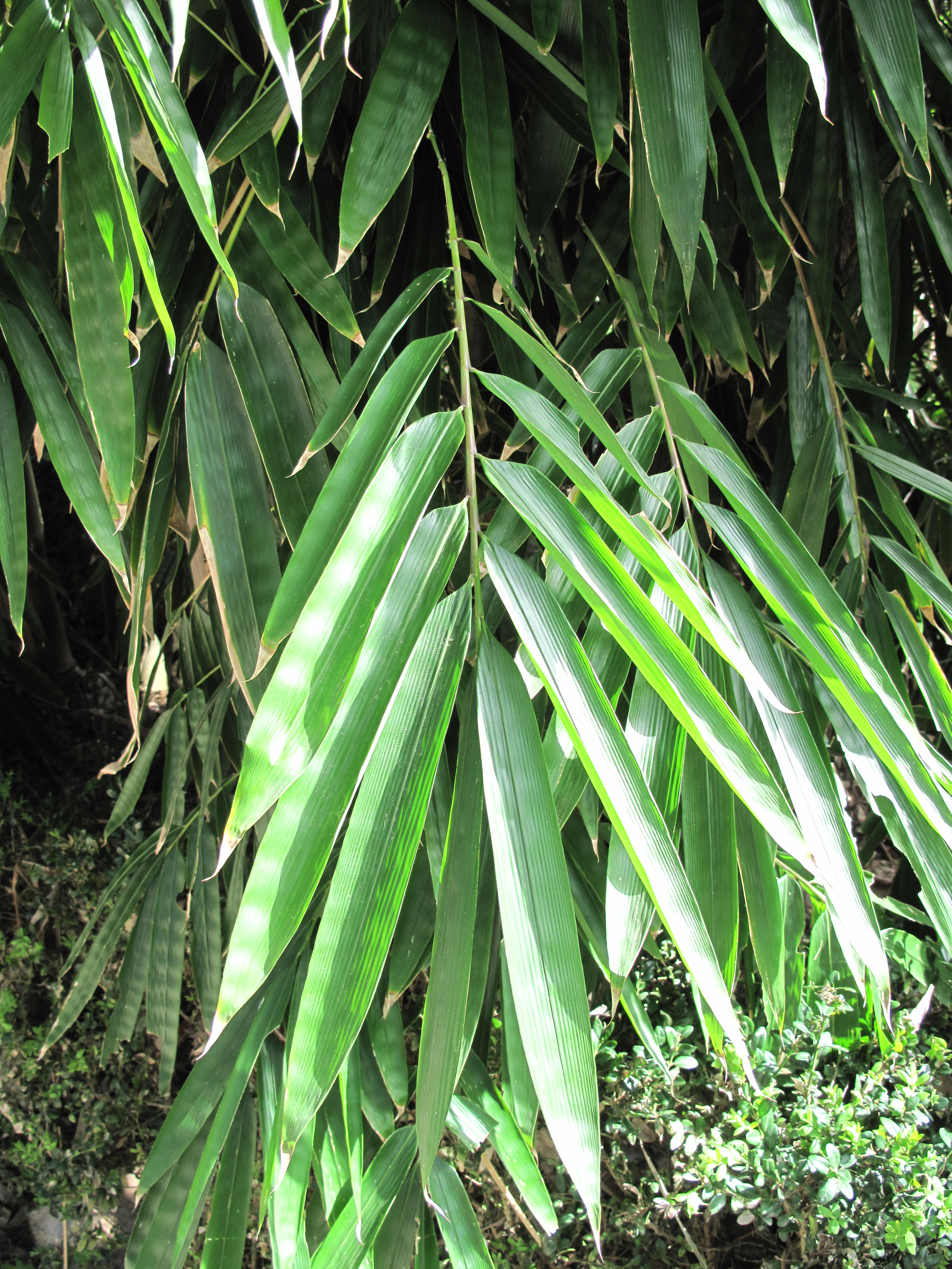 Dendrocalamus asper in the entrance of the jardin des Serres de la Madone in Menton (Alpes-Maritimes, France). Identified by its botanic label.